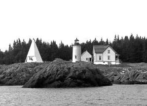 Little River Lighthouse, ME, USA with later (1876) keeper's house